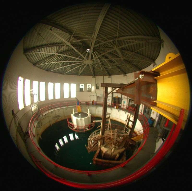 Chicago's dual cribs, the Carter/Harrison. This is an interior view of the water intake pool, shot with a fisheye lens. Photo by Richard Drew.